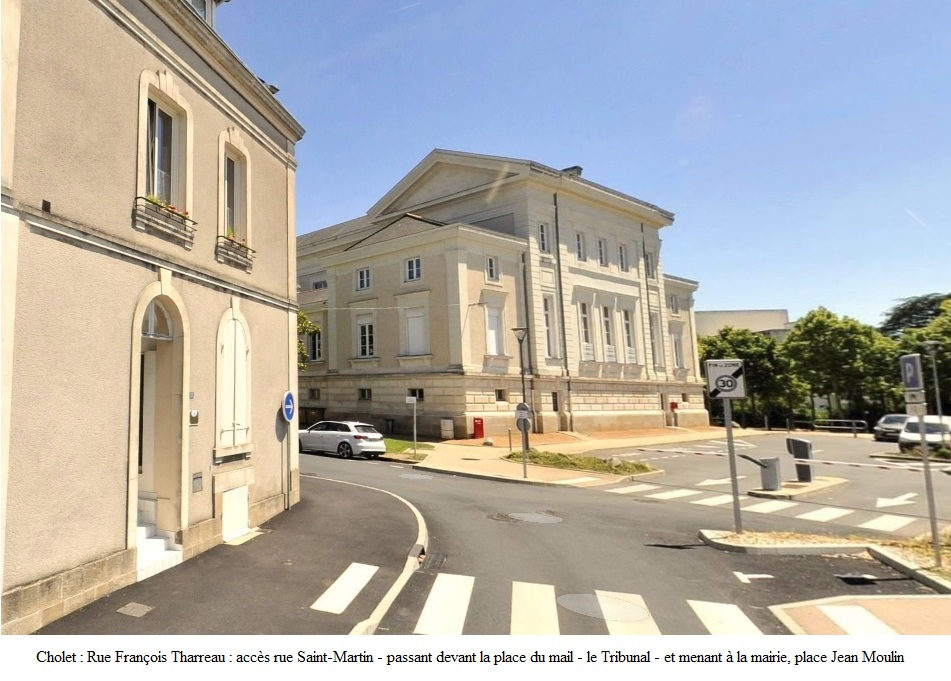 access via rue Saint-Martin (one way street)